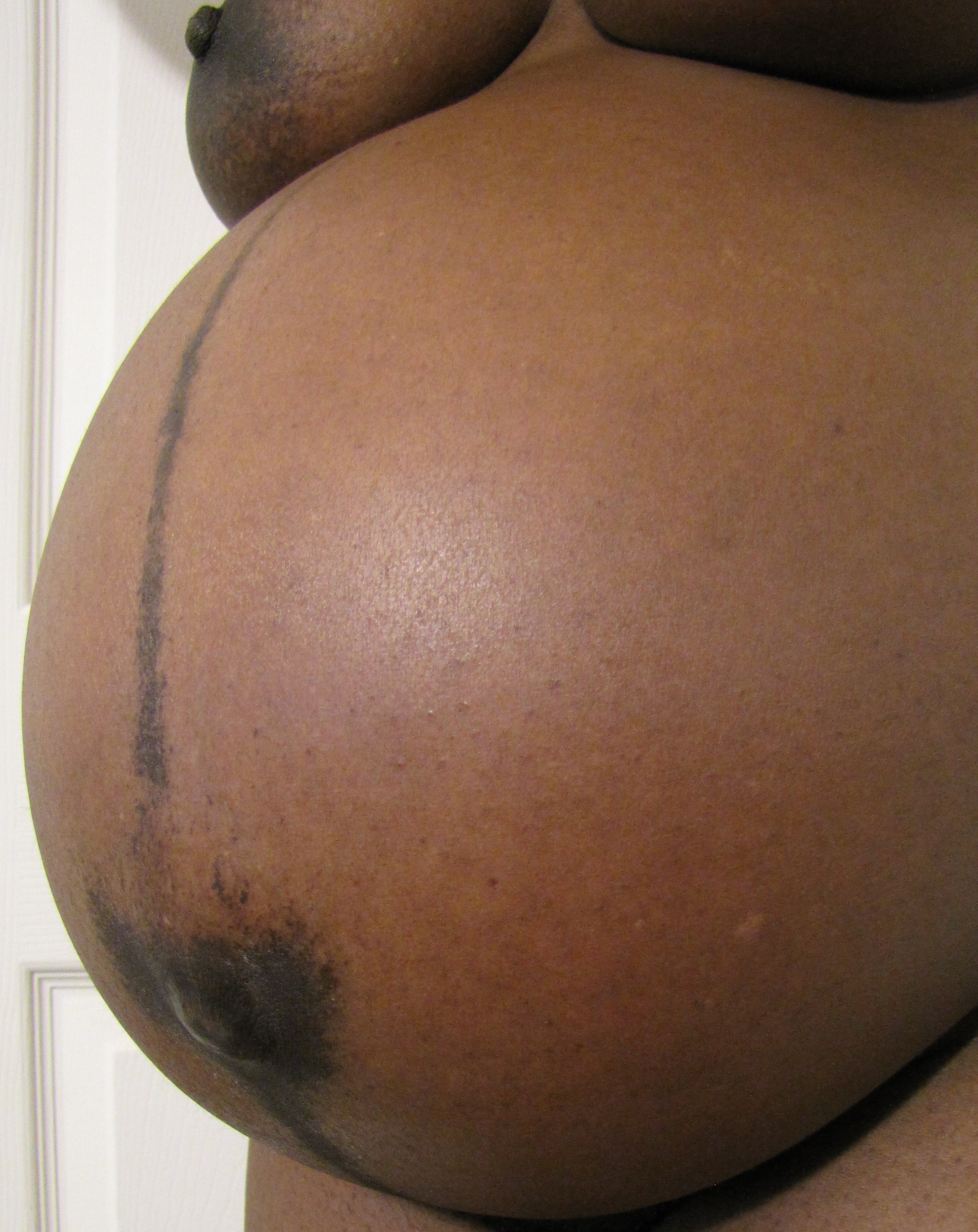 Linea nigra (Latin for "black line") is a dark vertical line that appears on the abdomen in about three quarters of all pregnancies